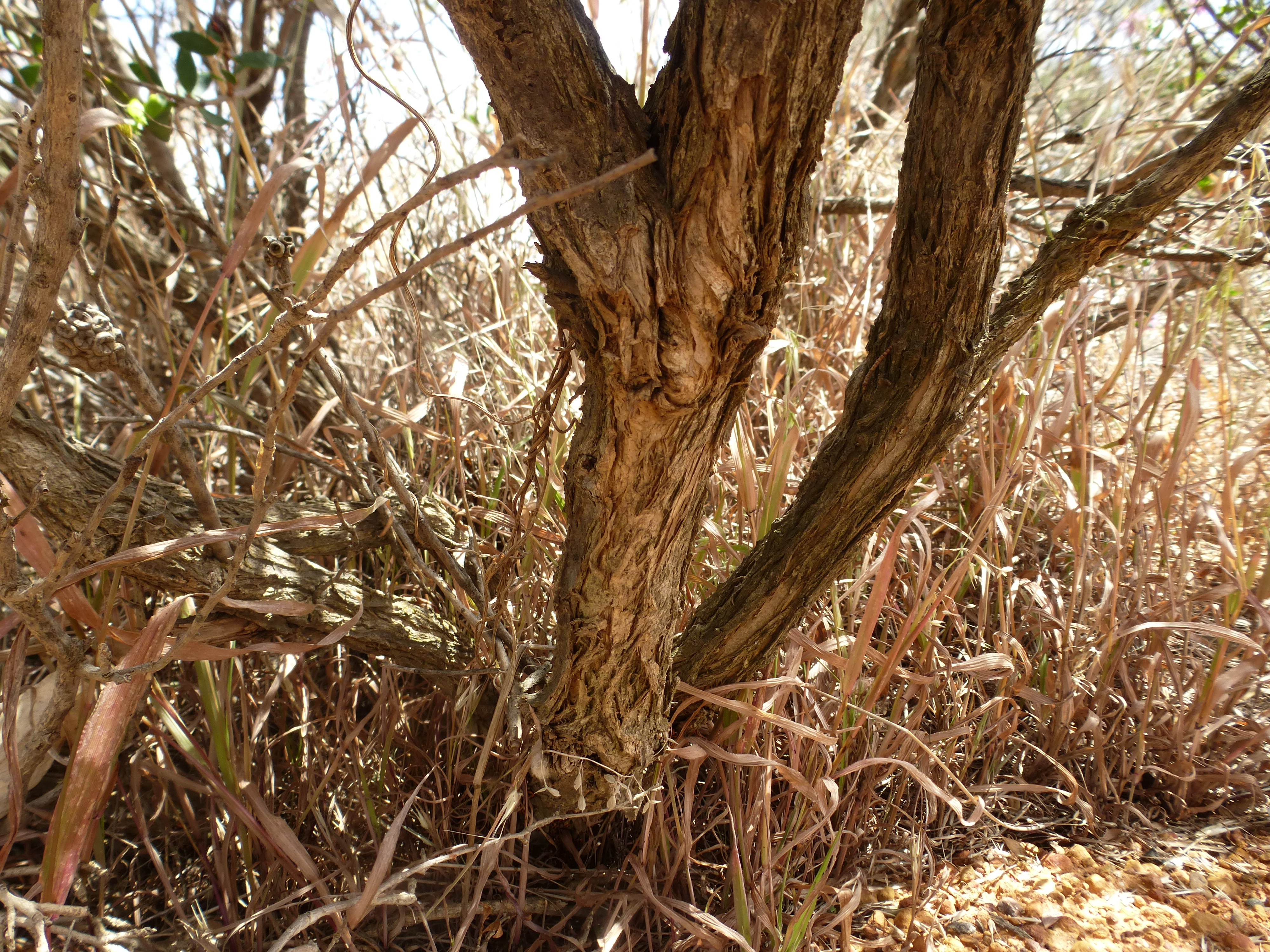 Melaleuca conothamnoides growing near Tammin